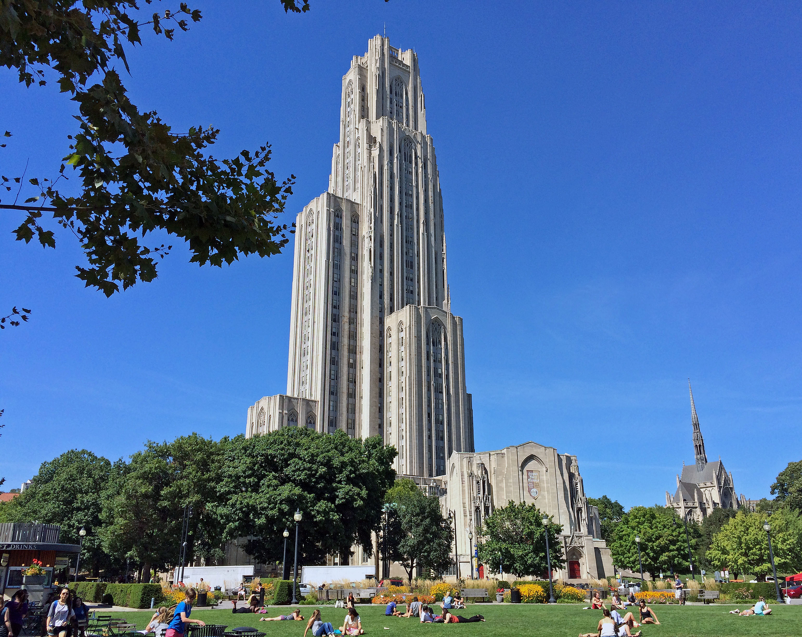 The Cathedral of Learning, Stephen Foster Memorial, and Heinz Chapel on the campus of the University of Pittsburgh as viewed from Schenley Plaza